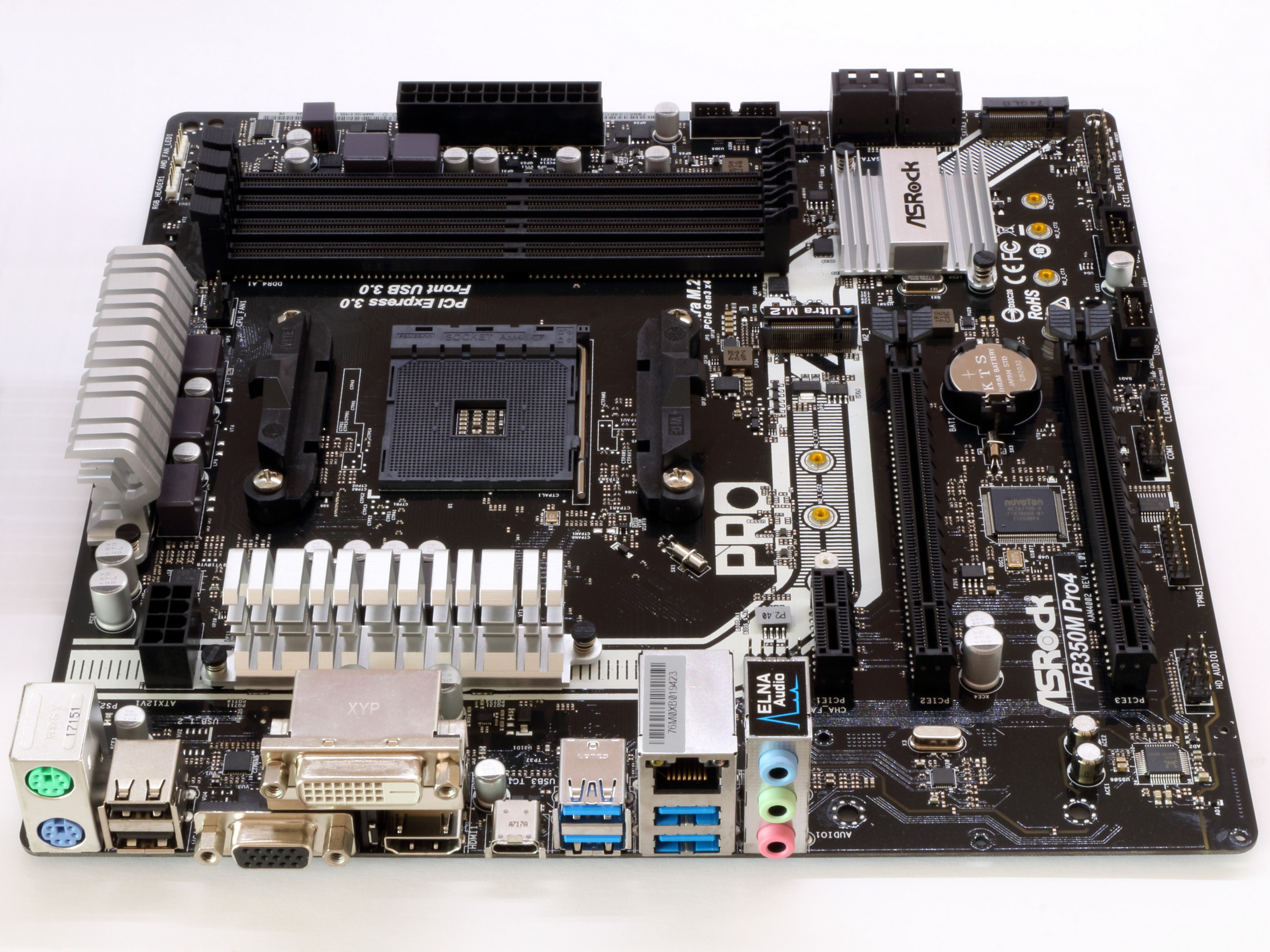 ASRock AB350M Pro4 motherboard